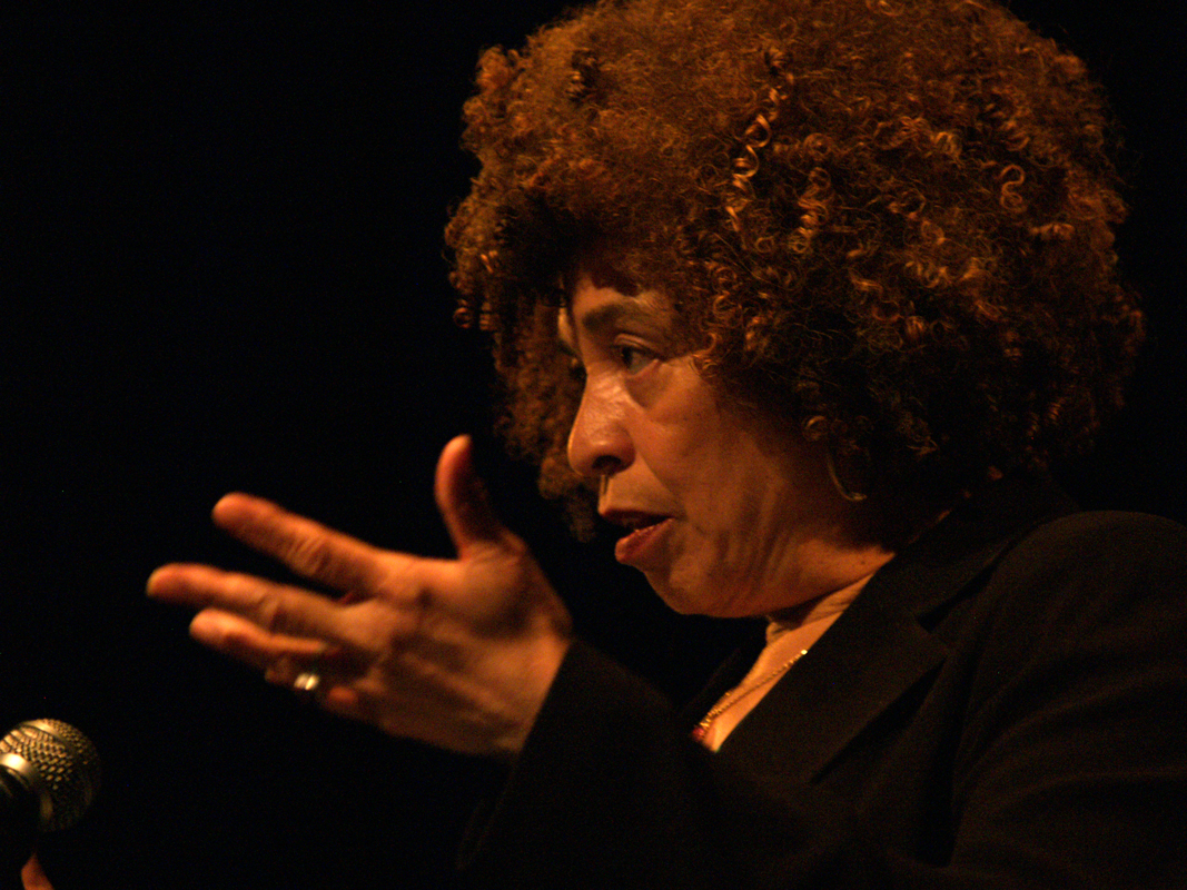 Angela Davis speaking at Myer Horowitz Theatre of the University of Alberta.